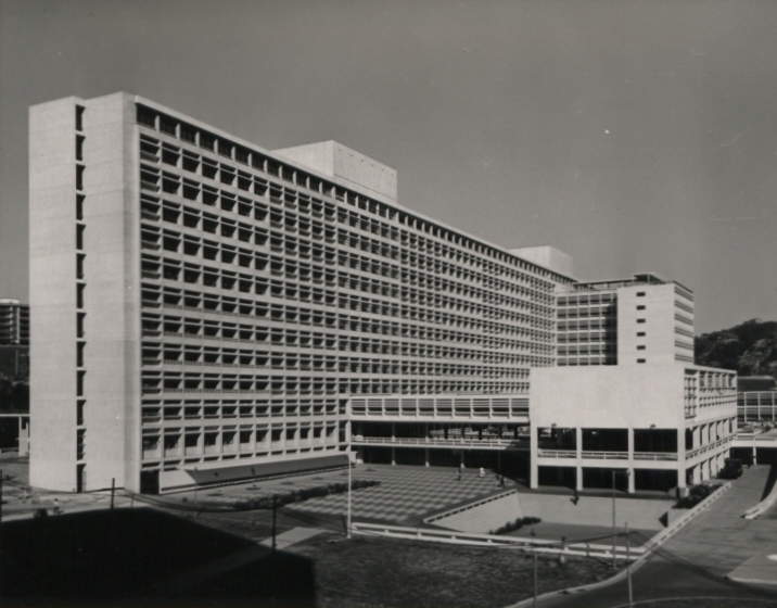 Queen Elizabeth Hospital, Hong Kong in 1969 Our Catalogue Reference: Part of CO 1069/464 This image is part of the Colonial Office photographic collection held at The National Archives. Feel free to share it within the spirit of the Commons For high quality reproductions of any item from our collection please contact our image library.